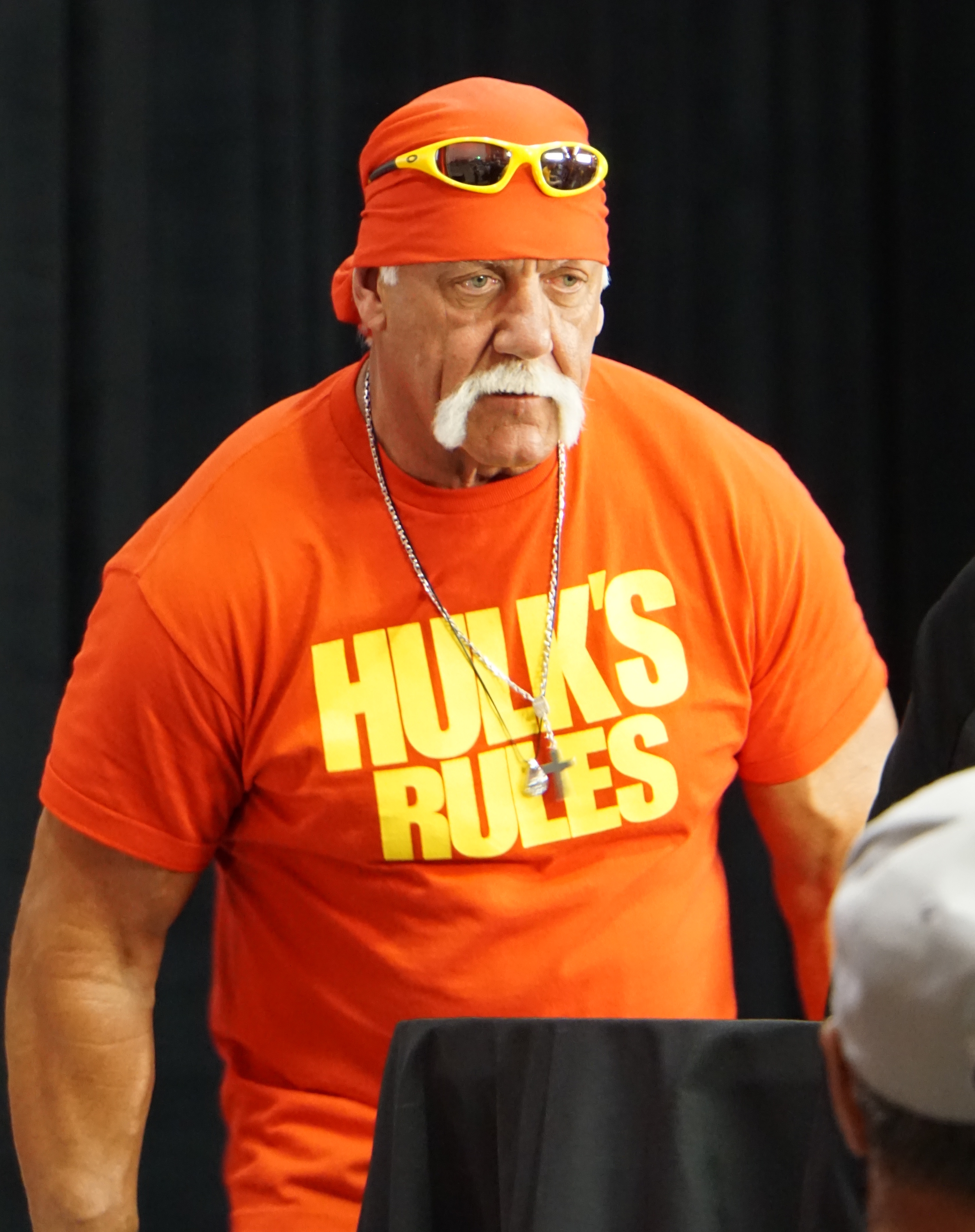 Cropped version of File:Hulk Hogan 2015.jpg; it doesn't need so much top